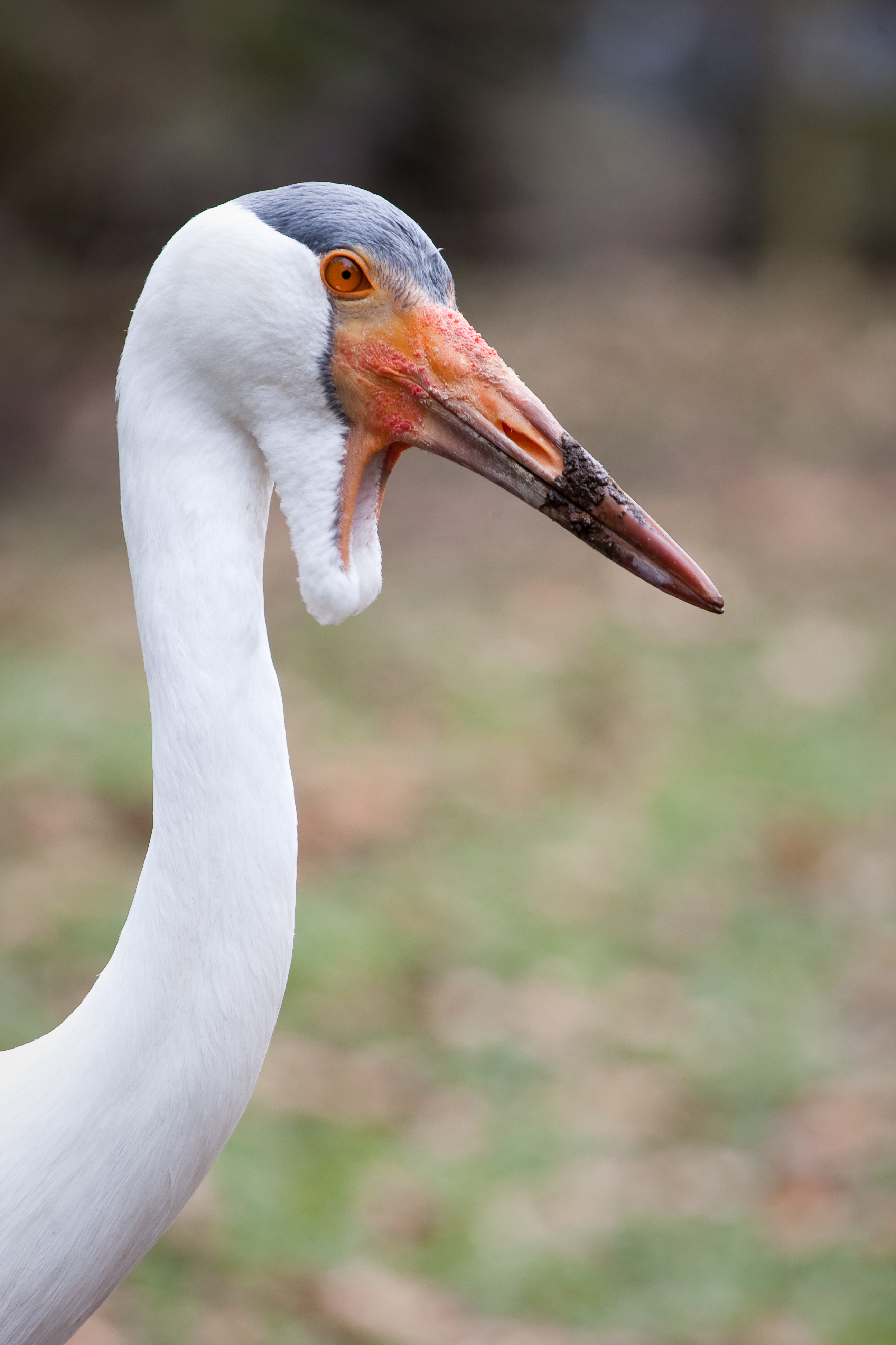 A Wattled Crane at Dierenpark Amersfoort, Netherlands.